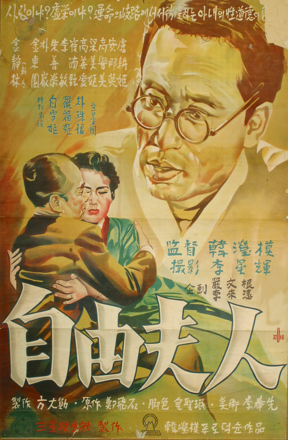 1956 Korean movie poster for 1956 Korean film Madame Freedom (자유부인 - Jayu buin).